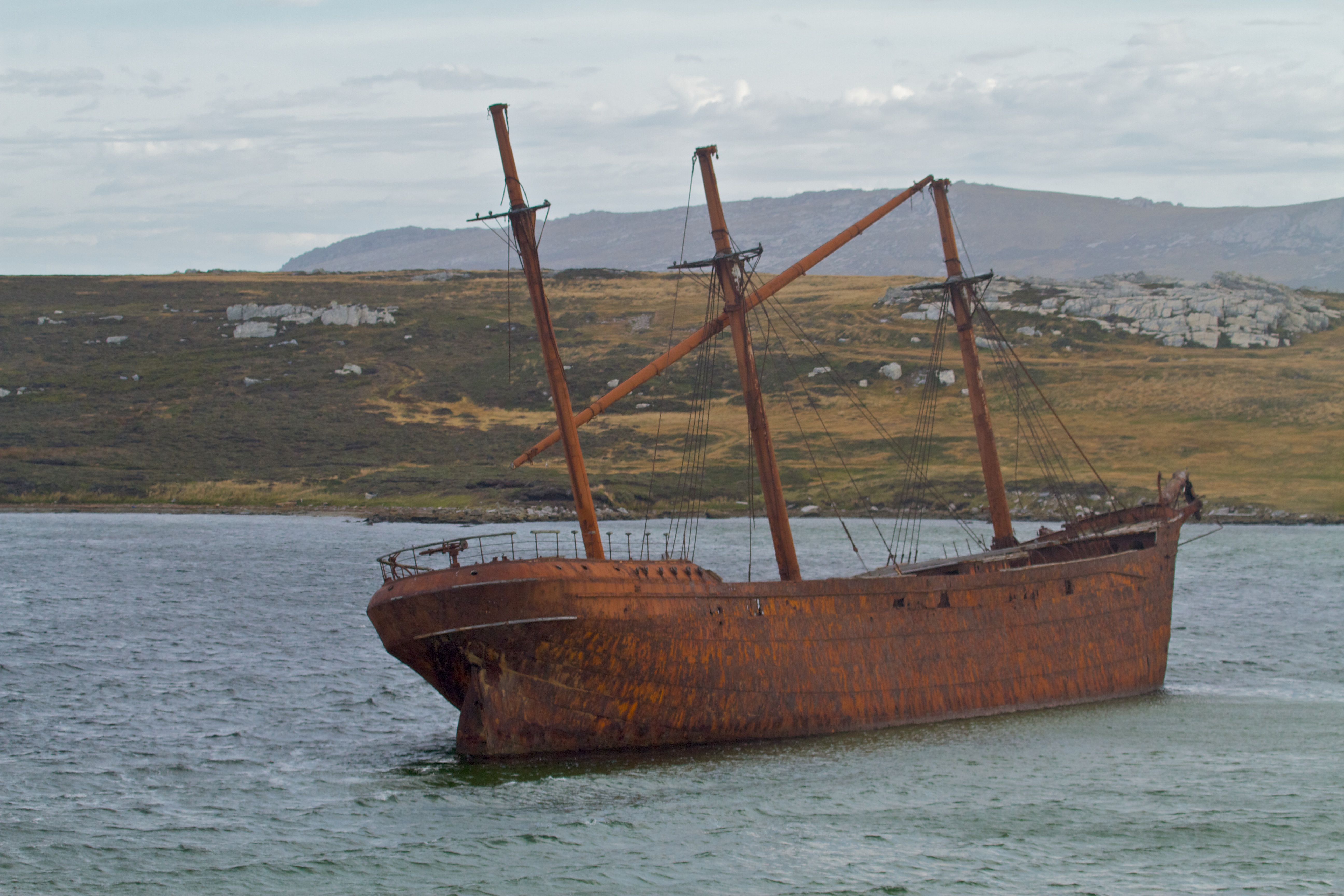 The wreck of Lady Elizabeth (1879) in Falkland Islands